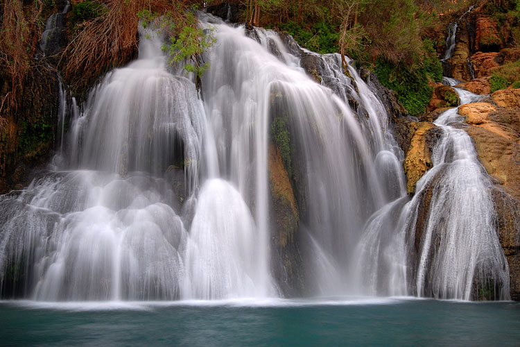 Navajo Falls, Arizona in April 2008